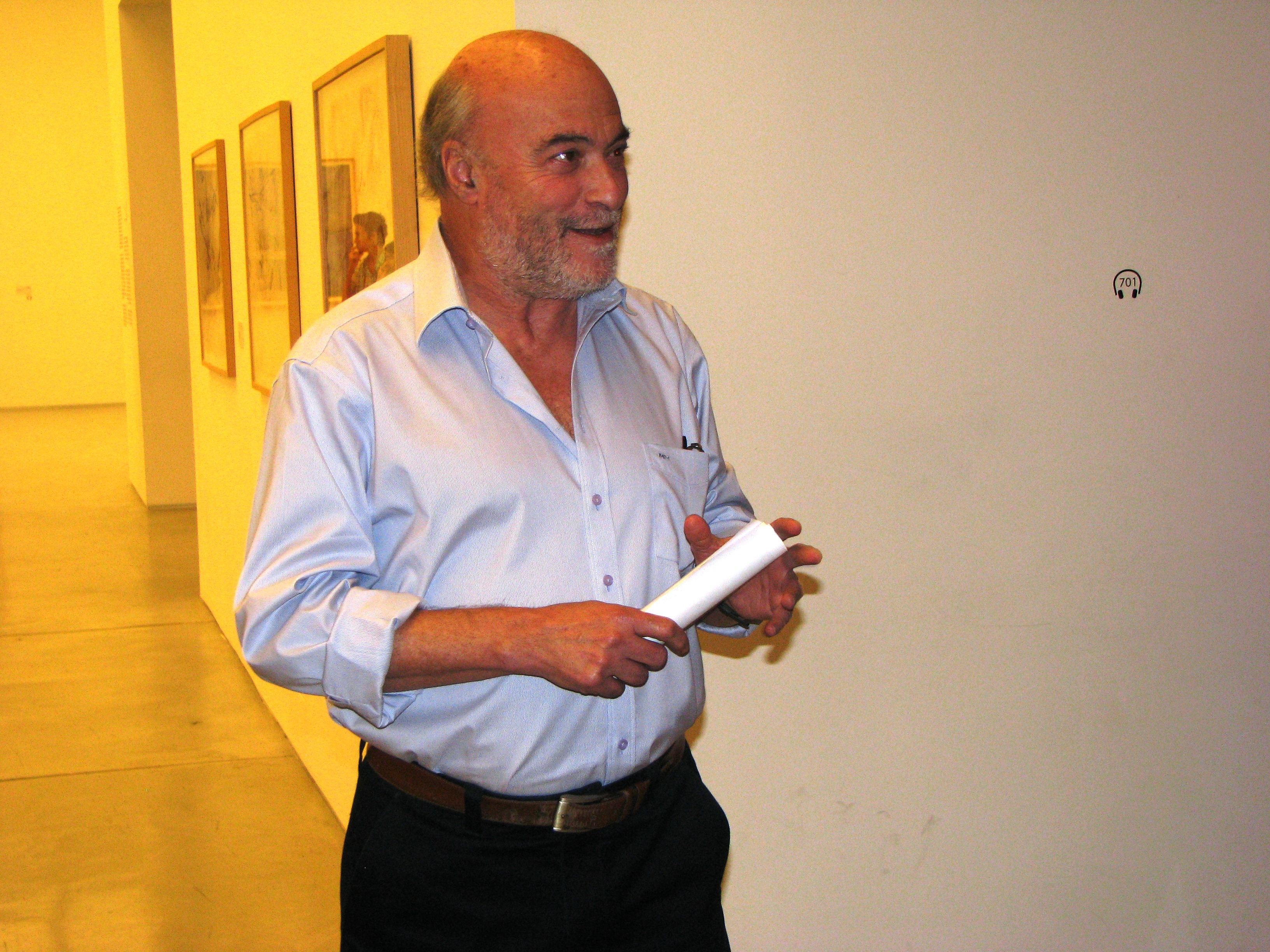 GLAM Backstage Tour at The Israel Museum, Jerusalem, 25.10.2011.